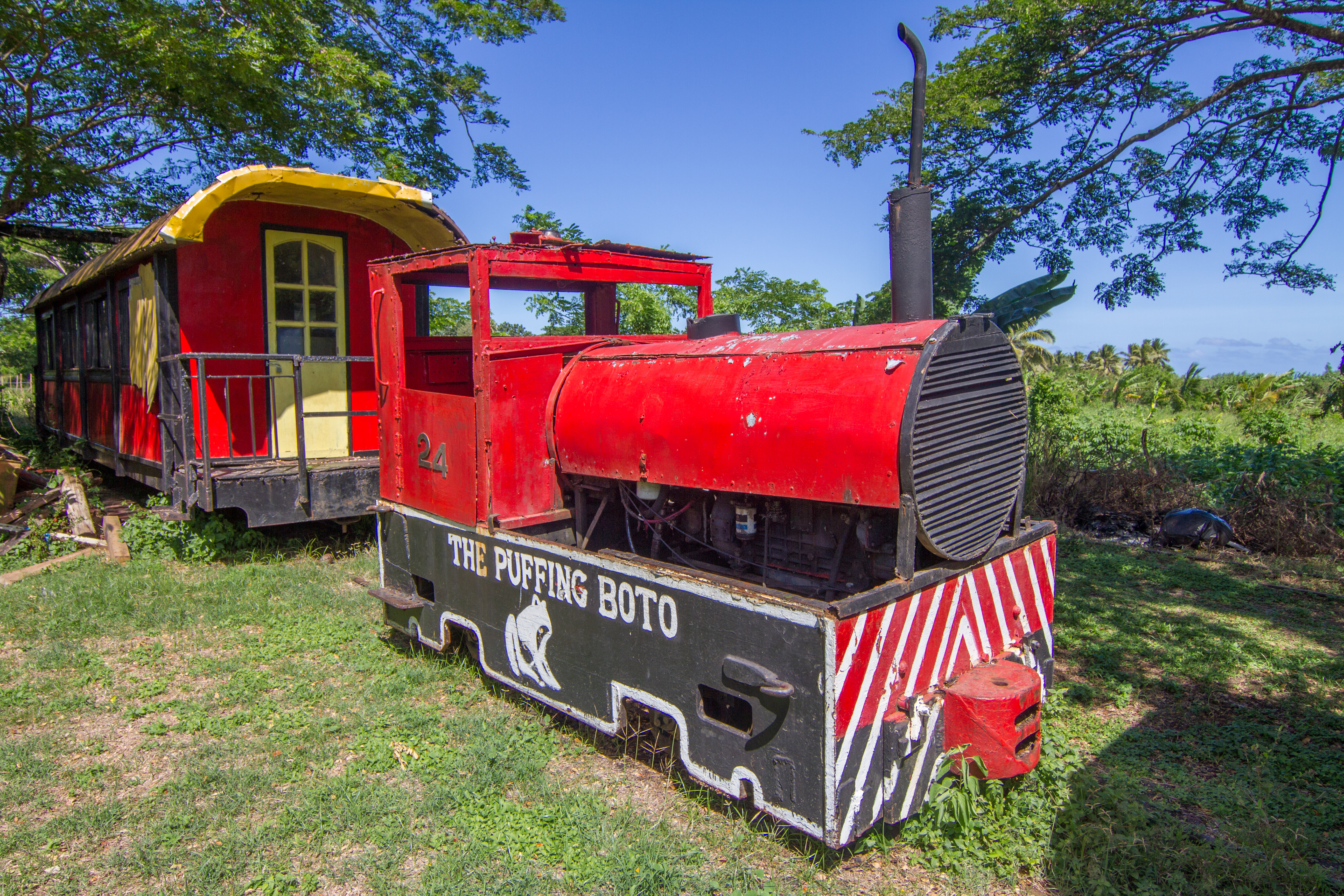 Coral Coast Railway, Sigatoka, Fiji